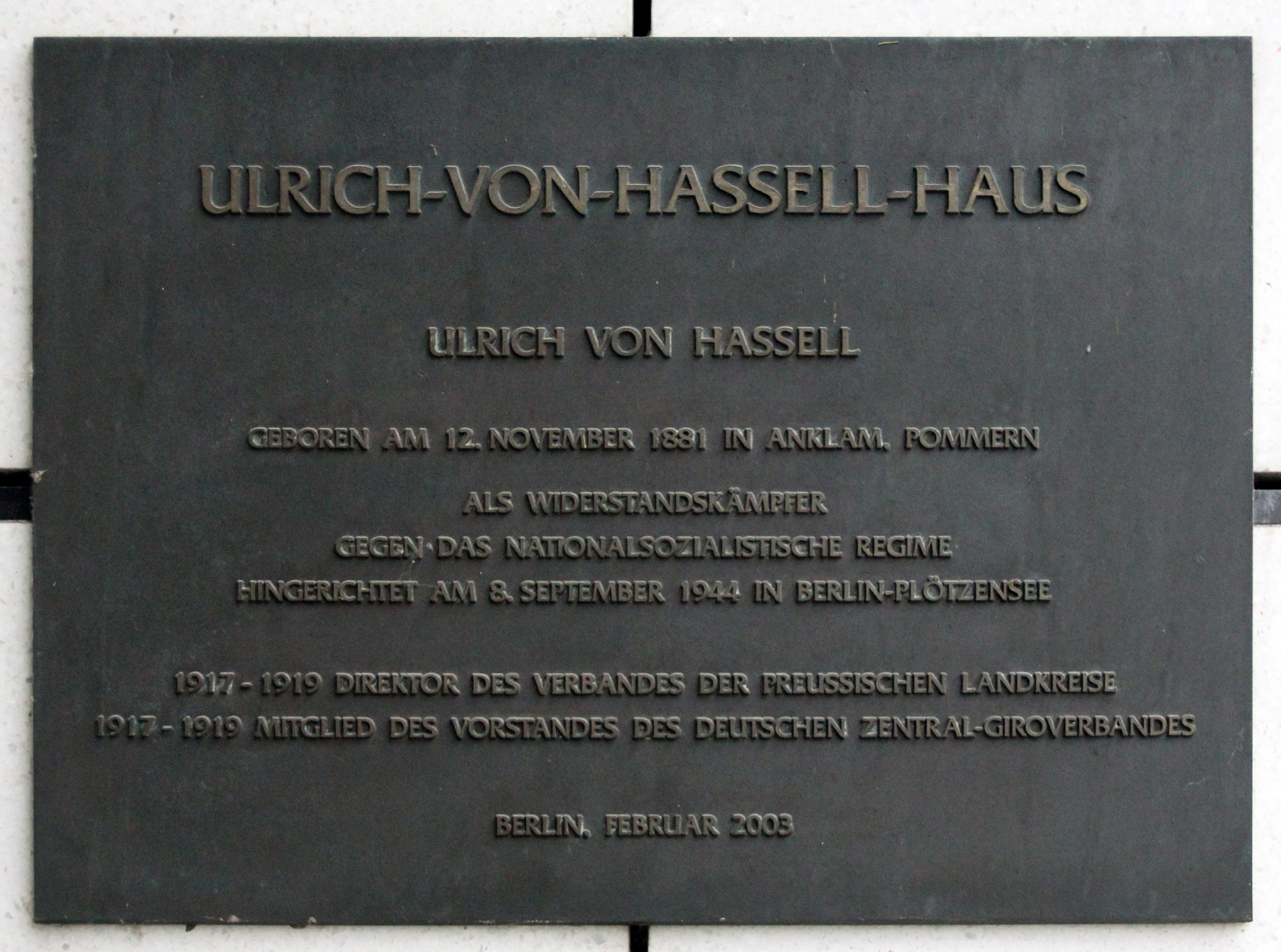 Memorial plaque, Ulrich von Hassell, Lennéstraße 11, Berlin-Tiergarten, Germany